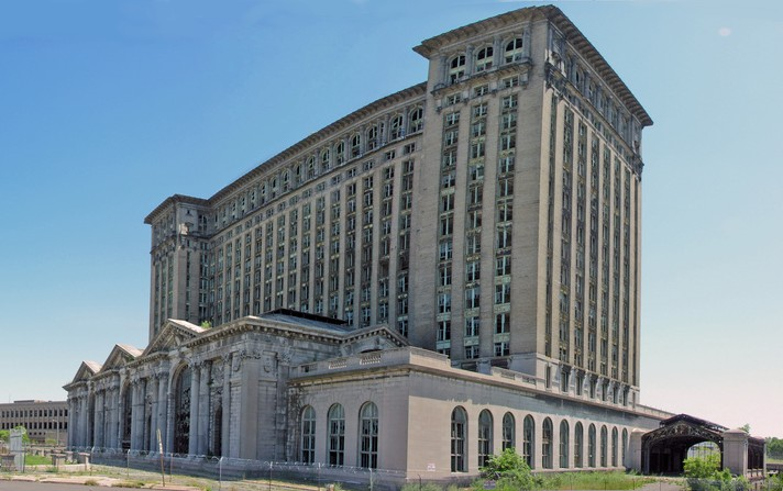 Multi-image panorama of Detroit's Michigan Central Station